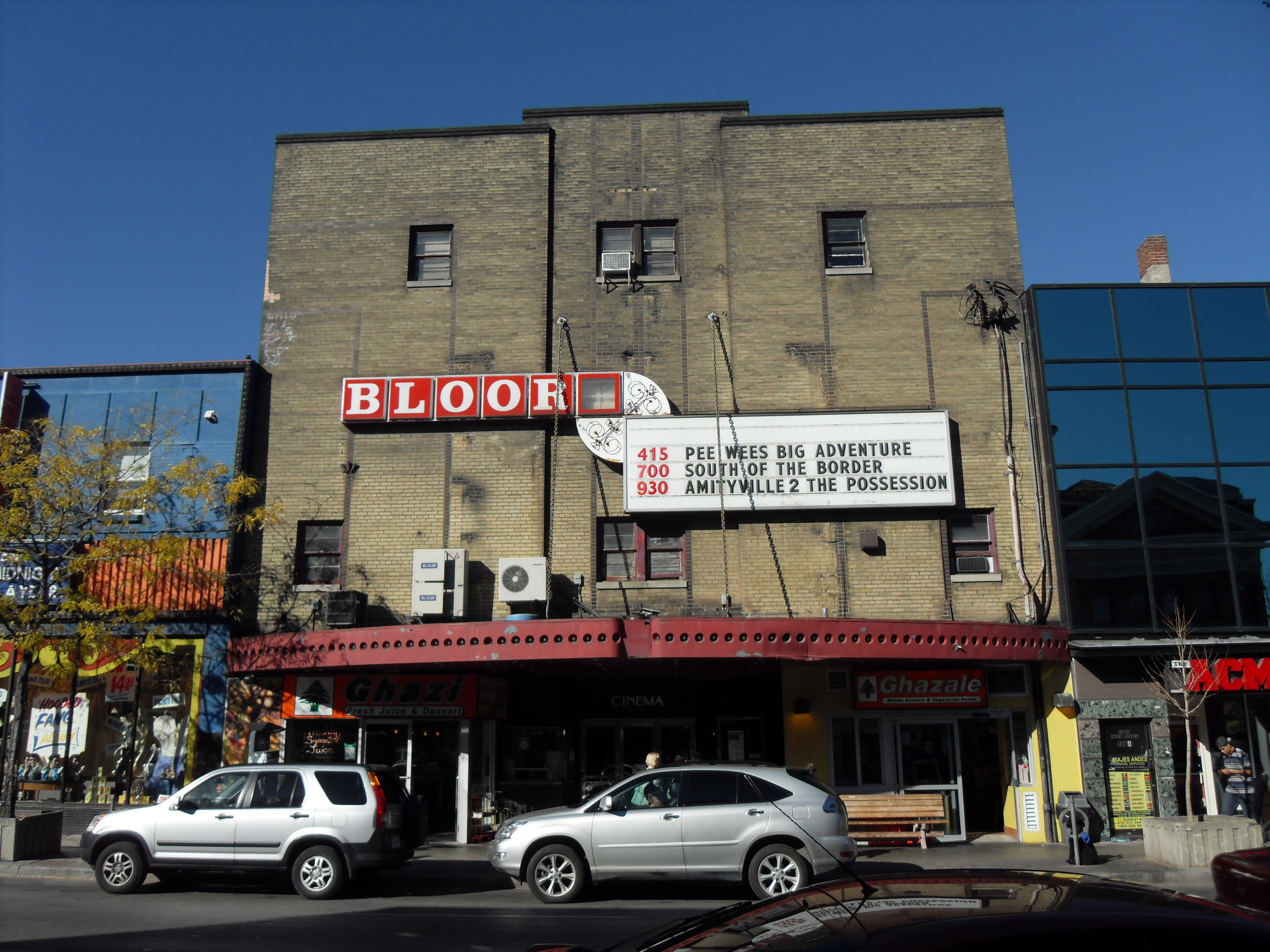 506 Bloor Street West Toronto Ontario This theater opened in 1905 as the Madison theater. In 1941 it became the Midtown theater. In the late 60's it became the Capri theater. In the 70's it was called the Eden theater (adult movies) and in 1979 it became The Bloor Cinema. More information can be found at "Cinema Treasures"